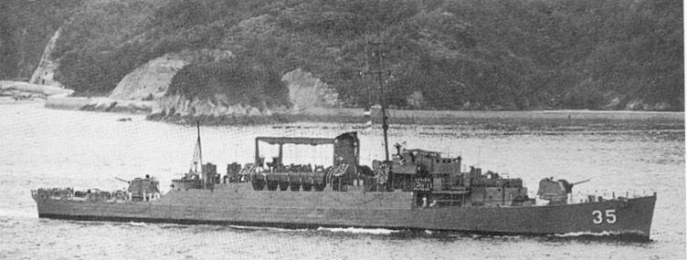 The Republic of China Navy frigate ROCS Fu Shan (PF-35), underway, circa in the 1960s. Fu Shan had been commissioned in the United States Navy as high-speed transport USS Truxtun (APD-98), in 1945-1946. She was transferred to the Republic of China on 22 November 1965.